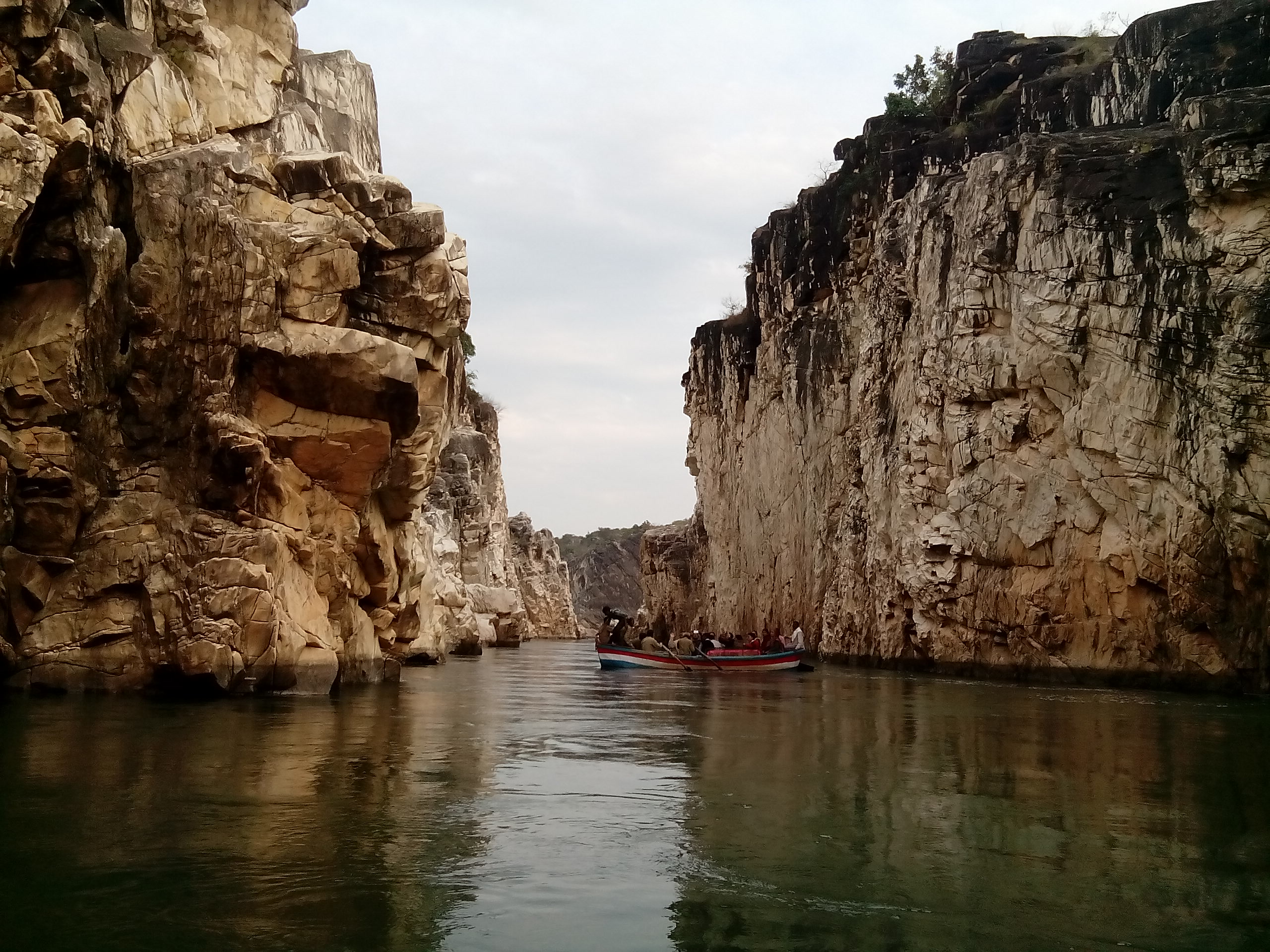 The Marble Rocks is an area along the Narmada river in central India near the city of Jabalpur in Jabalpur District of Madhya Pradesh state (India). The river has carved the soft marble, creating a beautiful gorge of about 3 km in length.